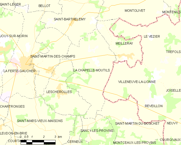 Map of French municipality La Chapelle-Moutils